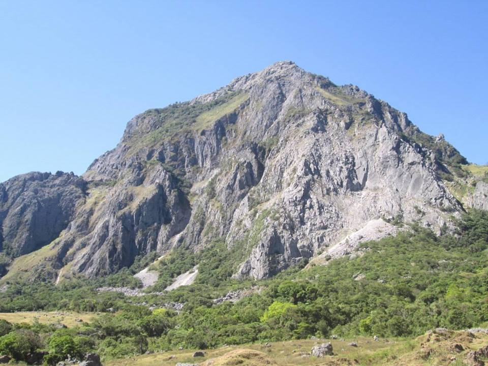 Matebian